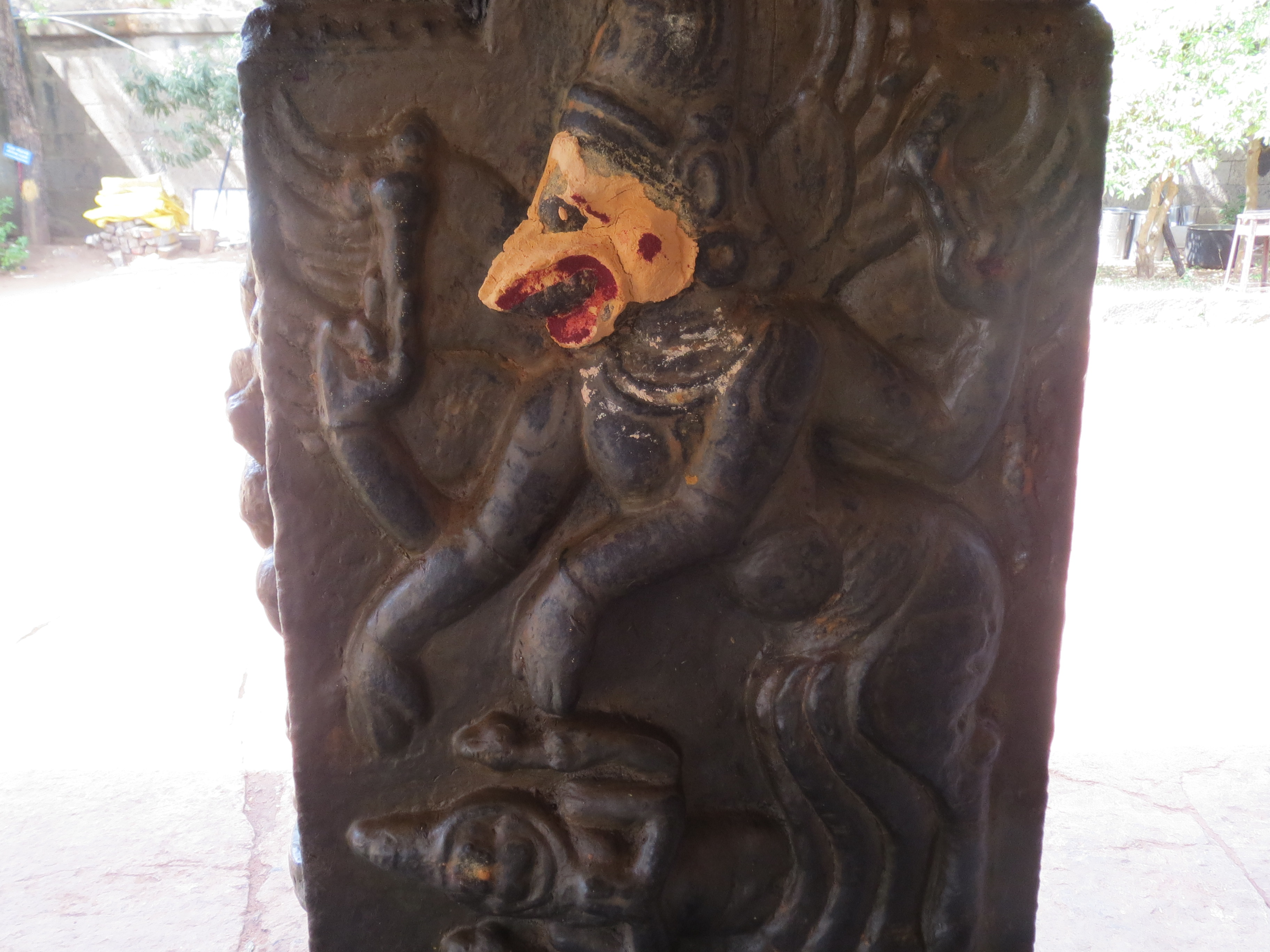 Sarabeswarar image carved on a pillar at Thenupureeswarar koil, Madambakkam, Chennai (Tamil nadu)